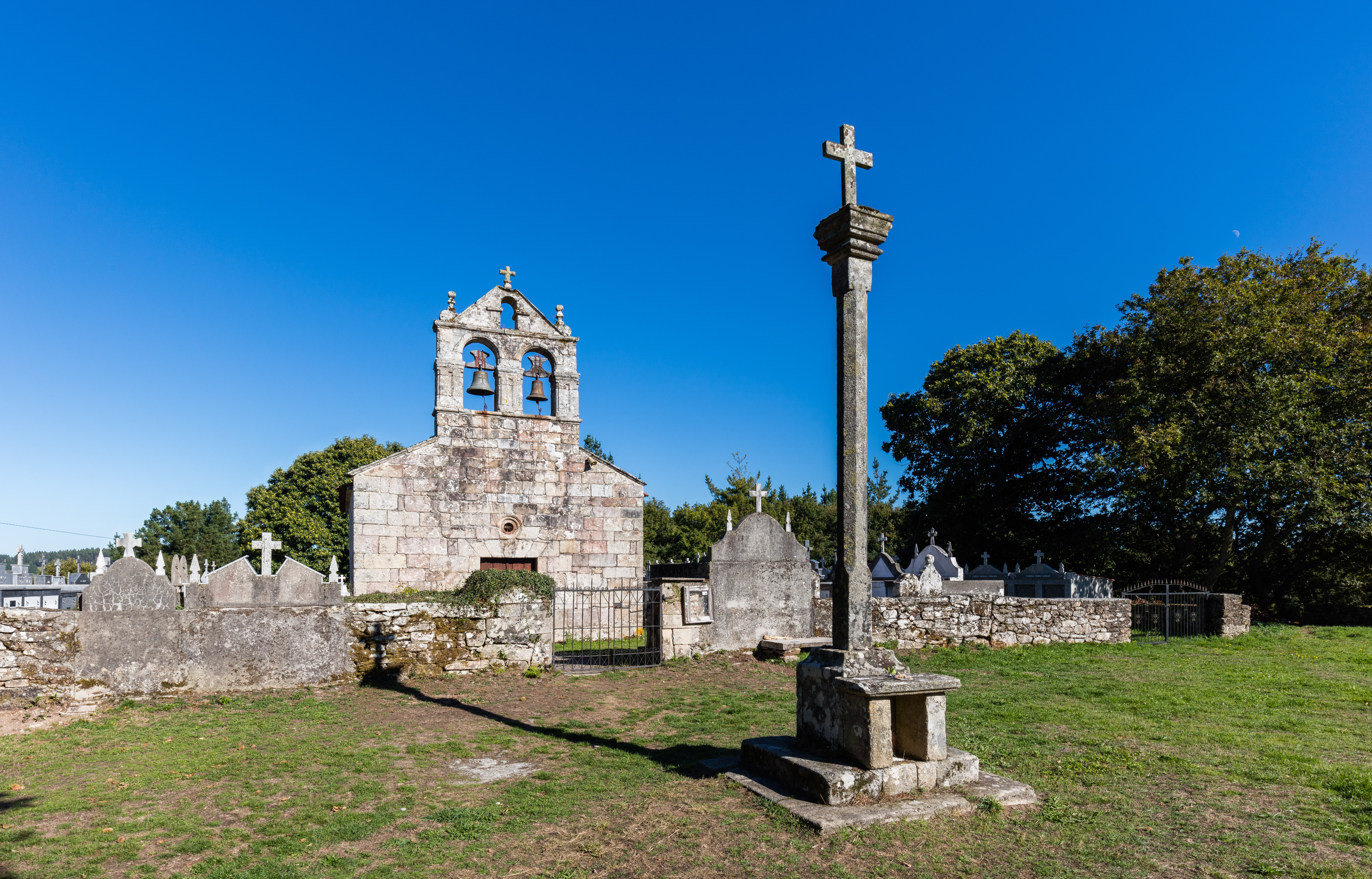 St James church, Lestedo, St James's Way, Lugo, Spain